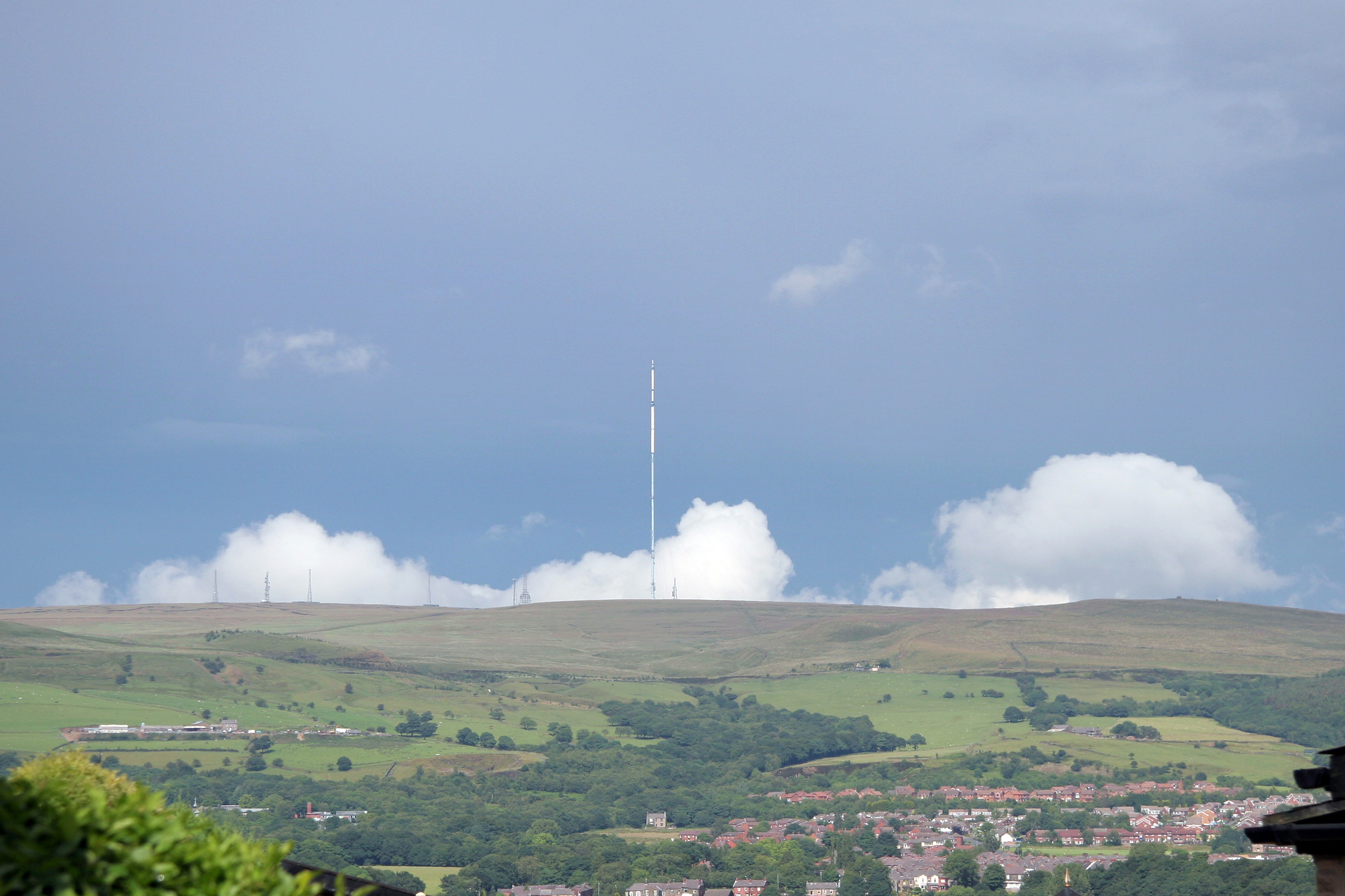 Winter Hill viewed from Blackrod, Greater Manchester, England. Part of Horwich is visible below the hill.